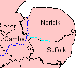 Map showing the course of the River Little Ouse (light blue) flowing into the Great Ouse (dark)